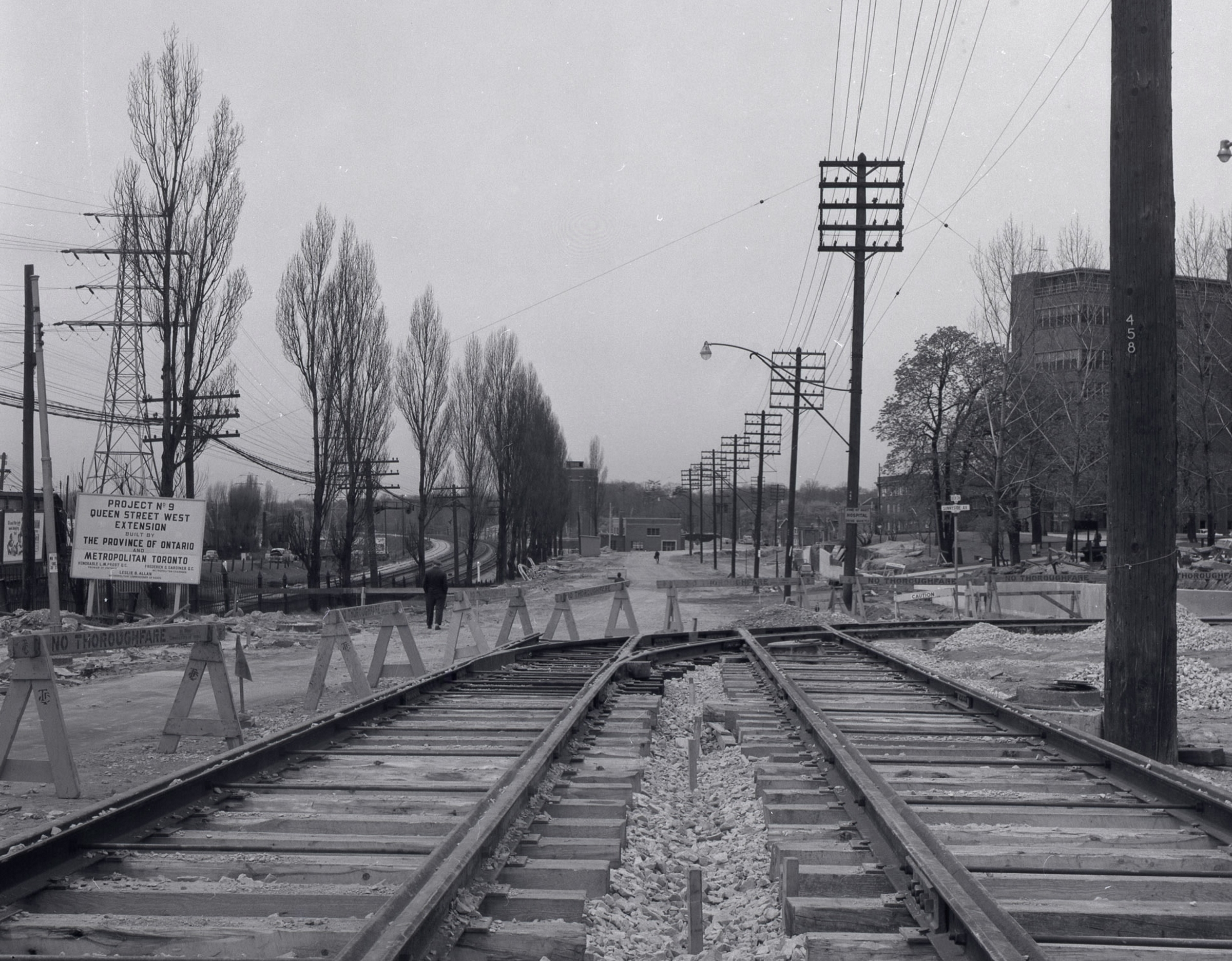 The Queensway under construction in 1956 as the "Queen Street Extension" (Cropped from original)